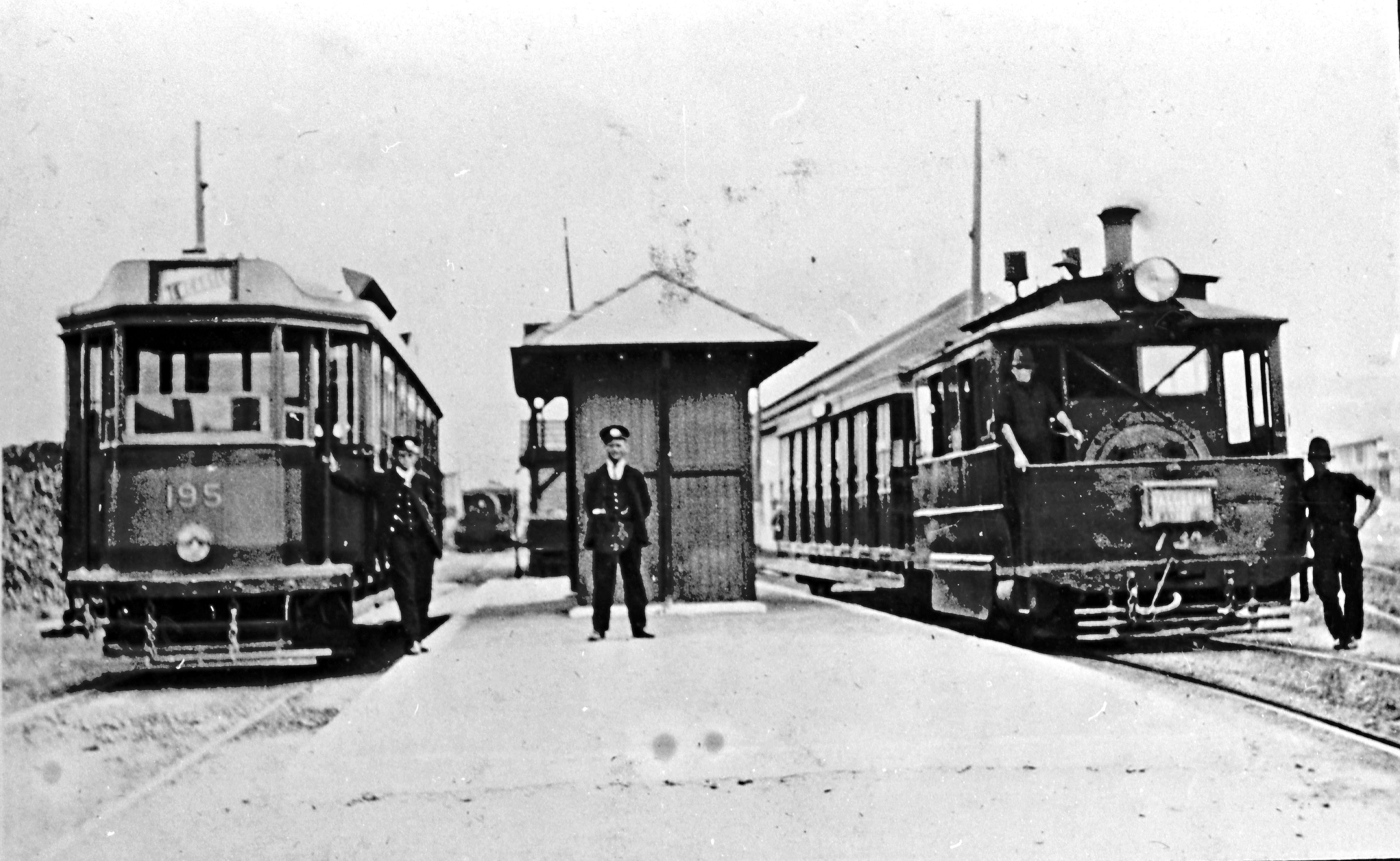 Tram car 195 and steam moter 73A at the tram terminus, Wallsend, NSW, [1930]